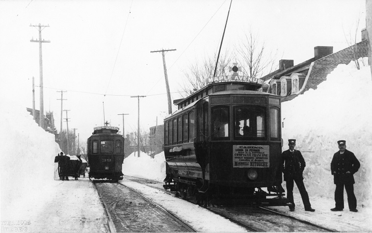 Photograph, Tram on Maple Avenue, Quebec City, QC, 1898, Silver salts on paper - Gelatin silver process - 12 x 17 cm